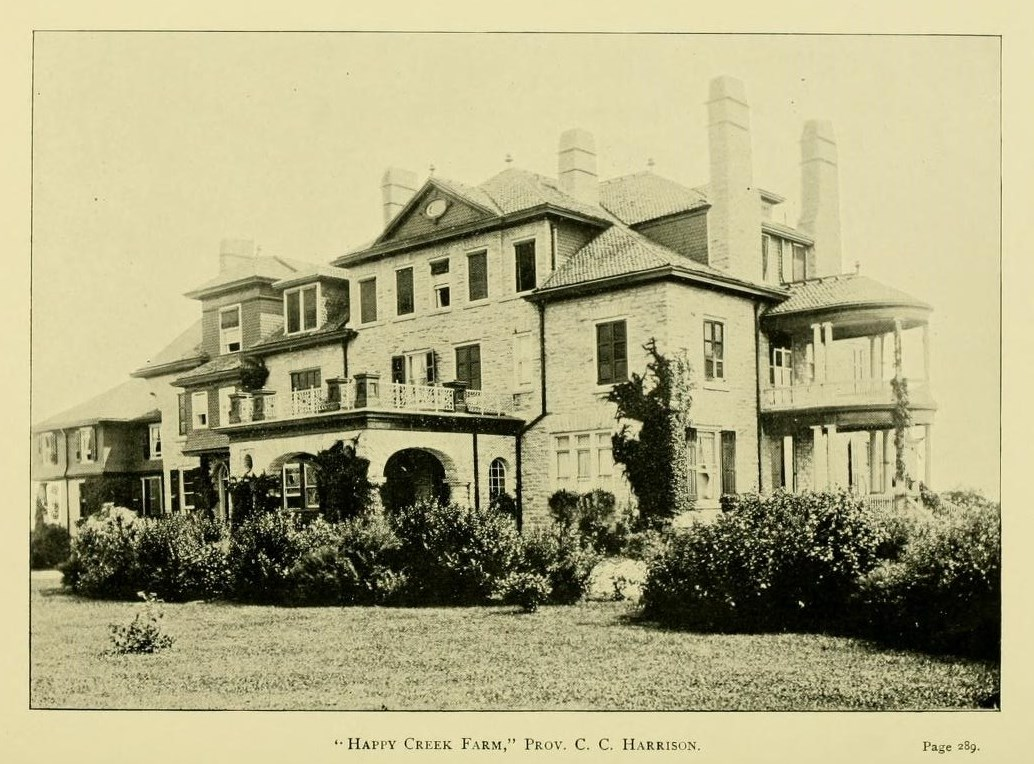 "Happy Creek Farm," Charles Custis Harrison house, Devon, Pennsylvania (c. 1890, demolished), Frank Furness, architect.